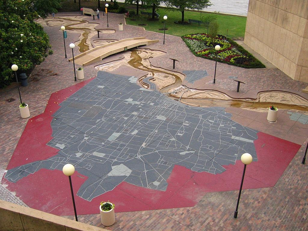 Photo of Mud Island Mississippi River Park in Memphis, TN.